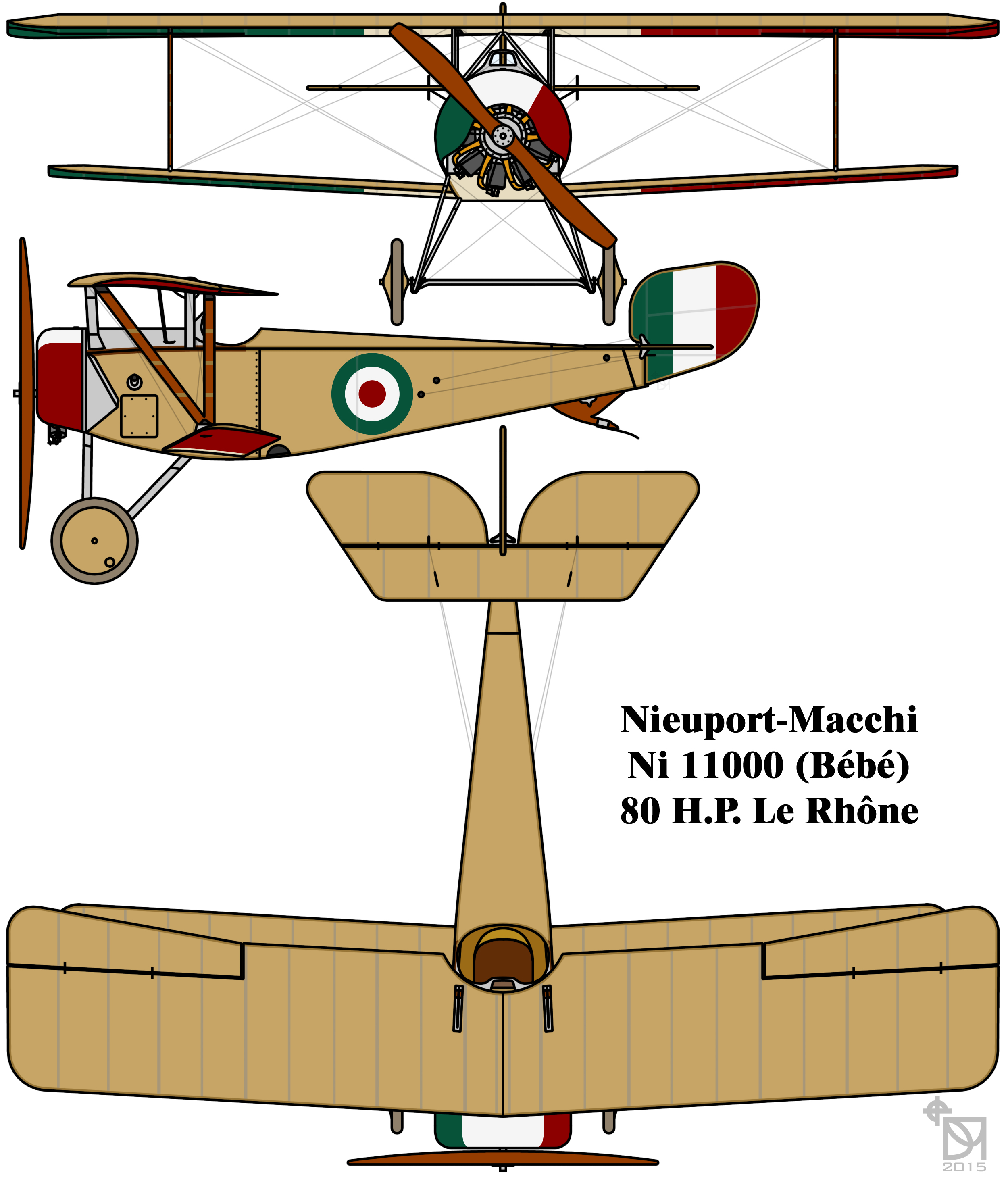 Nieuport 11 (written as 11000 or 11.000 by builder) single seat sesquiplane fighter from the third batch built under licence by the Nieuport-Macchi company of Italy (forerunner of Aermacchi), who made some minor modifications to the basic design.